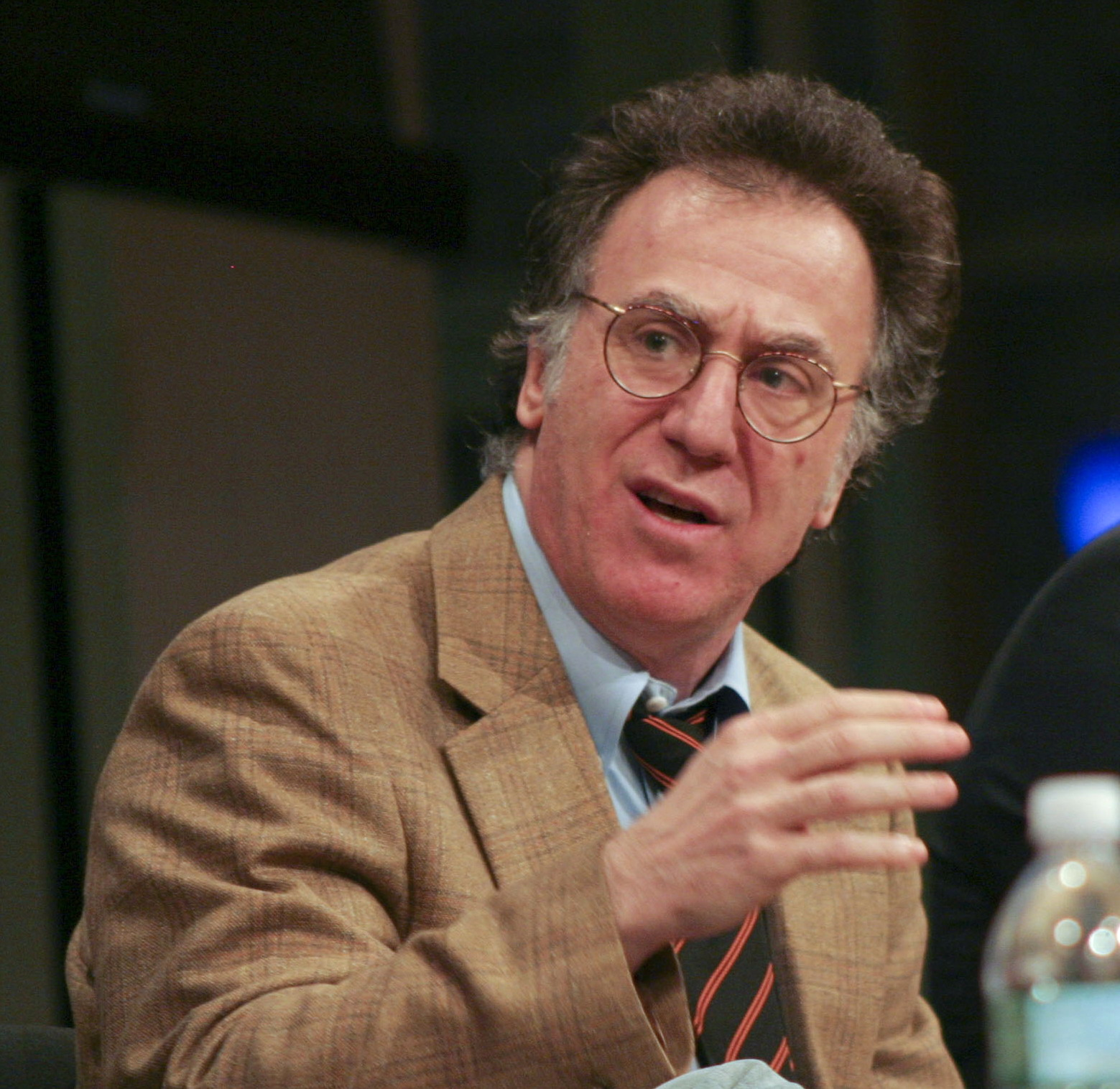 Bill Scheft at the 2009 New York Television Festival. © Rubenstein, photographer Martyna Borkowski